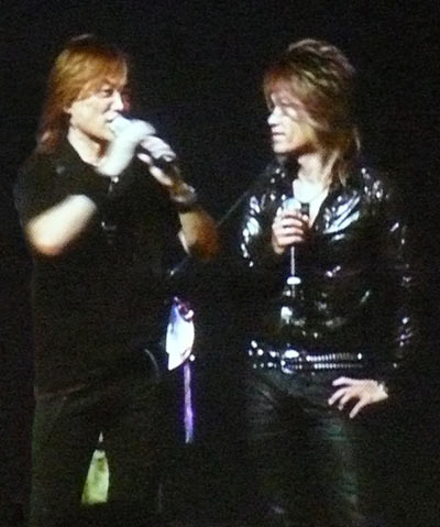 Hironobu Kageyama (left) and Hiroshi Kitadani at JAM Project World Flight 2008 No Border